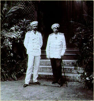 Grand Duke Alexander Michailovich and his older brother Grand Duke Nicholas Michailovich